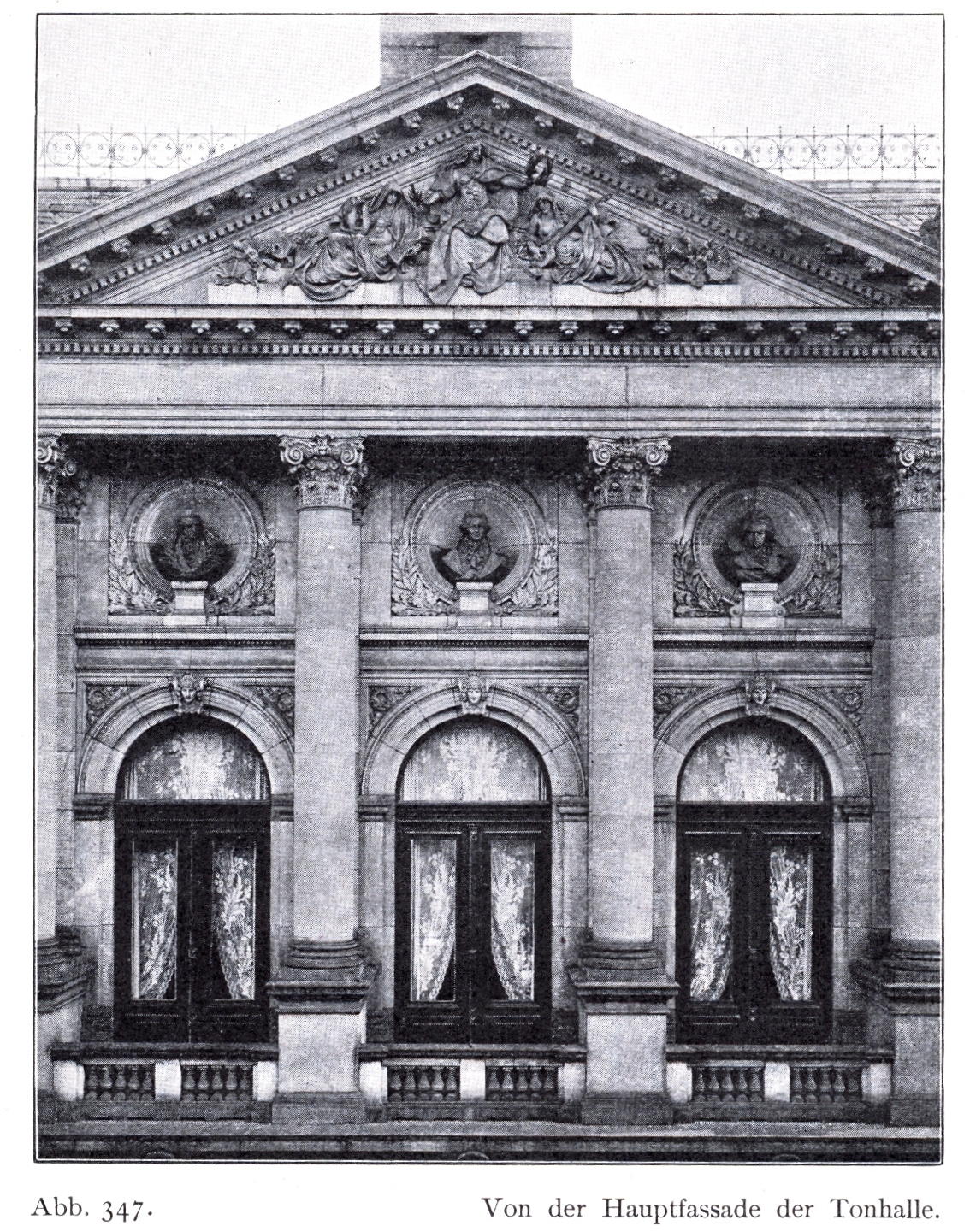 Alte städtische Tonhalle in Düsseldorf, 1863, Erweiterung von 1889 bis 1892, Architekten Hermann vom Endt und Bruno Schmitz, Stadtbaumeister Eberhard Westhofen und Stadtbaurat Peiffhoven, Hauptfassade.jpg